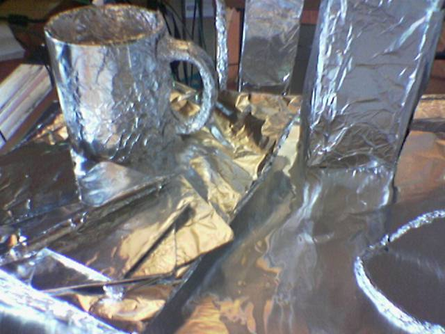 Office prank where all office items -- here speaker, book, mug, coasters and headphone chord -- have been individually wrapped in aluminium foil.